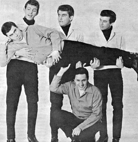 Photo of the group the T-Bones who had a commercial they did become a hit song-"No Matter What Shape".